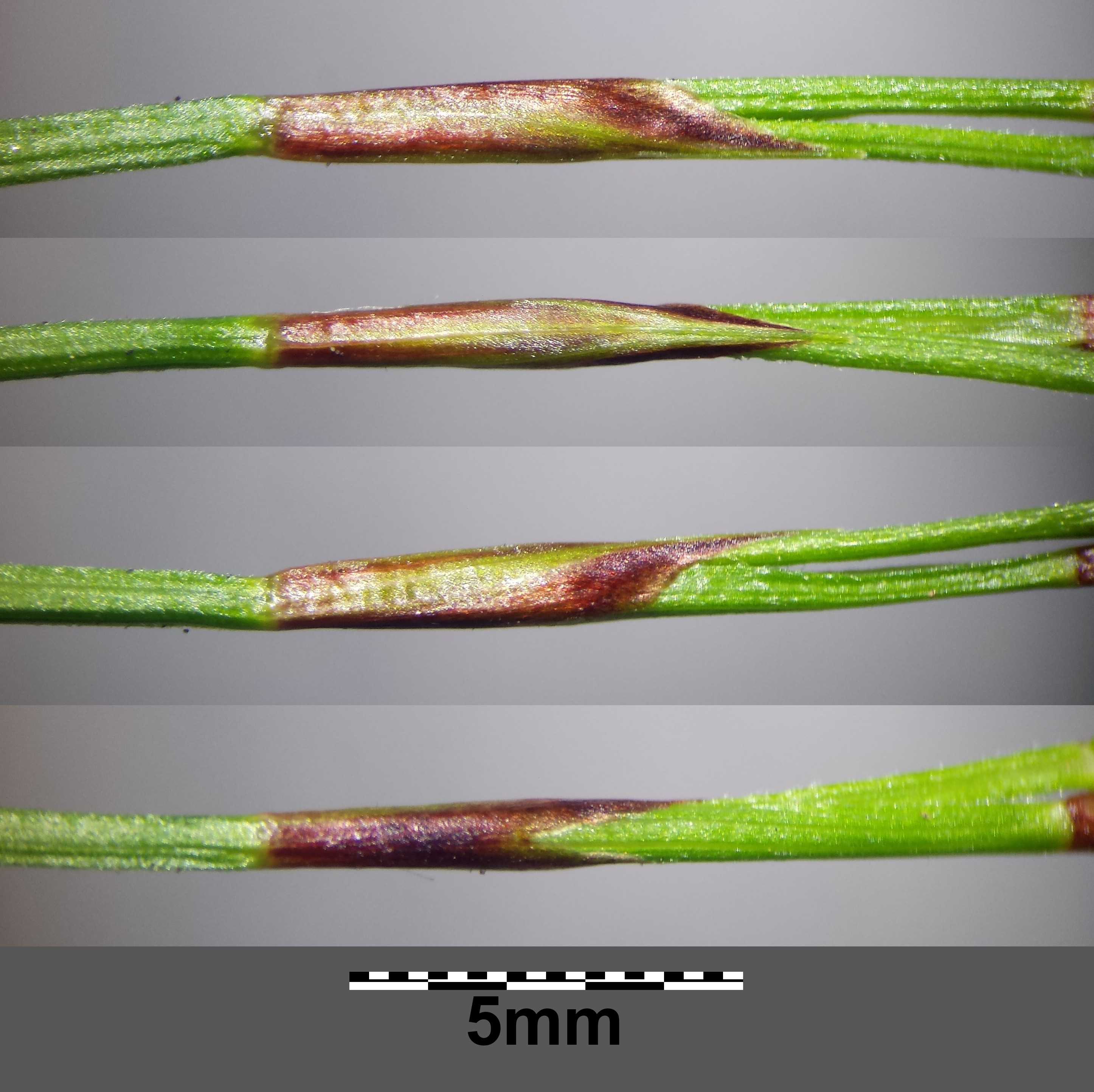 Bract of lowest spike Taxonym: Carex digitata ss Fischer et al. EfÖLS 2008 ISBN 978-3-85474-187-9 Location: Rohrwald, district Korneuburg, Lower Austria - ca. 280 m a.s.l. Habitat: Carpinion betuli